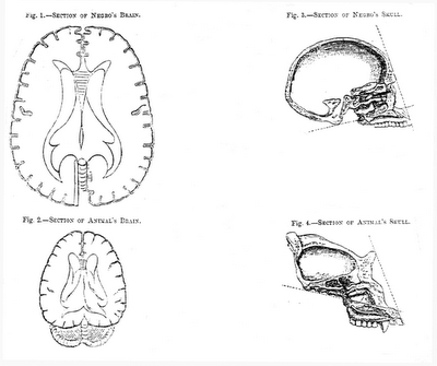 Richard Owen: The Gorilla and the Negro. In: The Athenaeum. March 1861